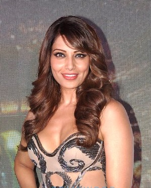 Bipasha Basu at Audio release of 'Creature' at R City Mall